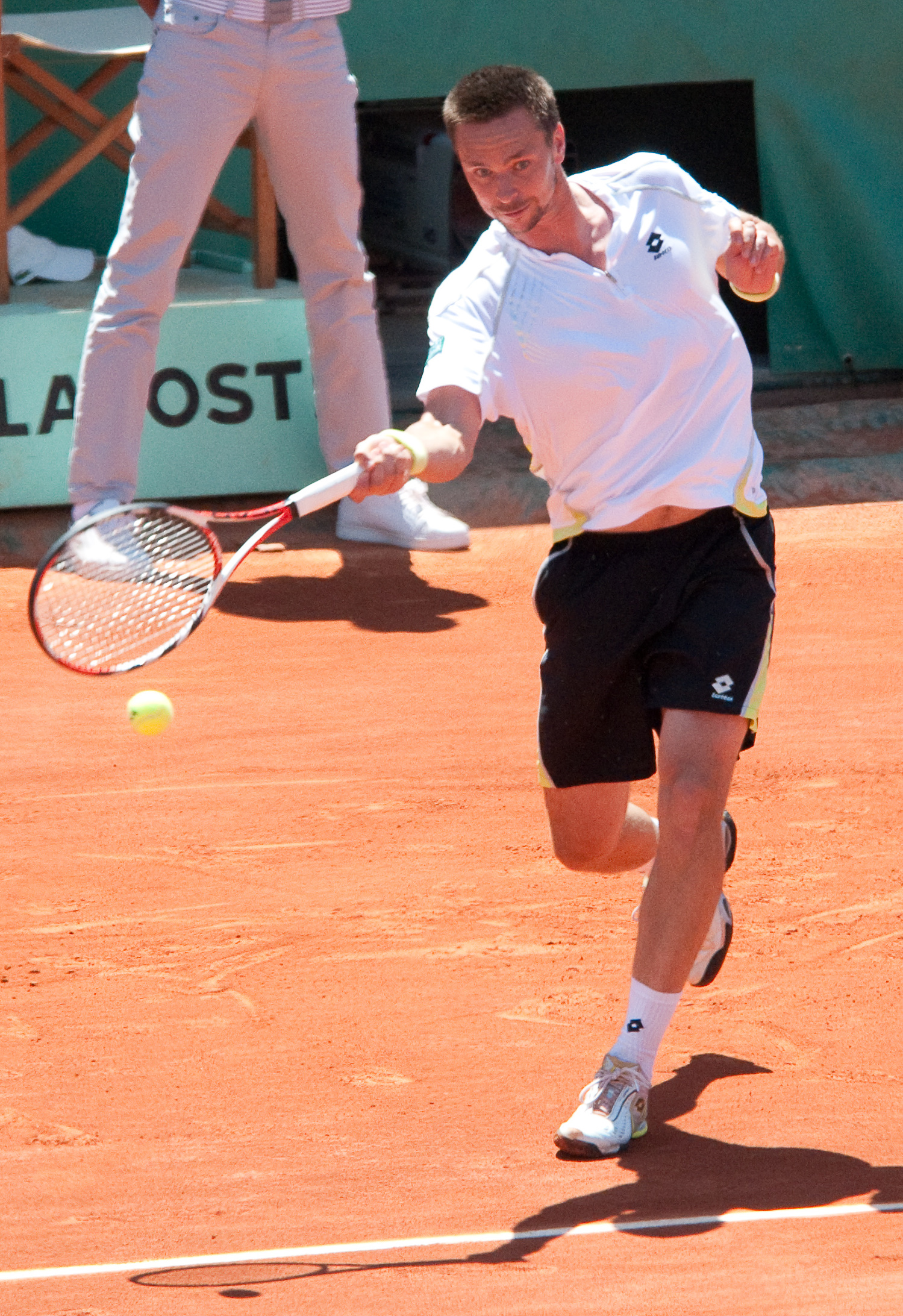 Robin Söderling at 2009 Roland Garros, Paris, France